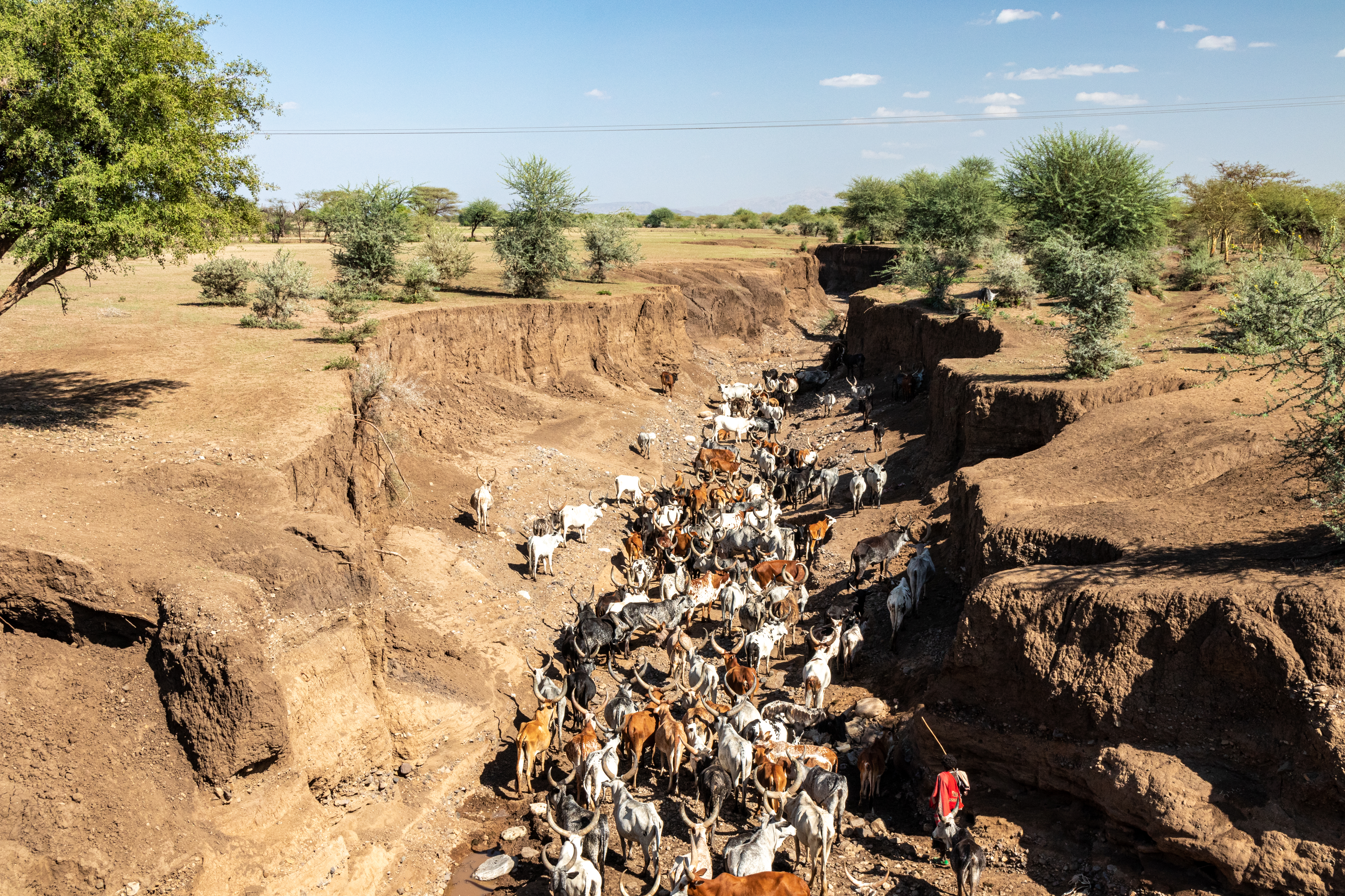 A herder of the nomadic Afar people brought his herd of local cattle into an almost dry riverbed on the search for water (Afar, Ethiopia). This is an image with the theme "Africa on the Move or Transport" from: Ethiopia